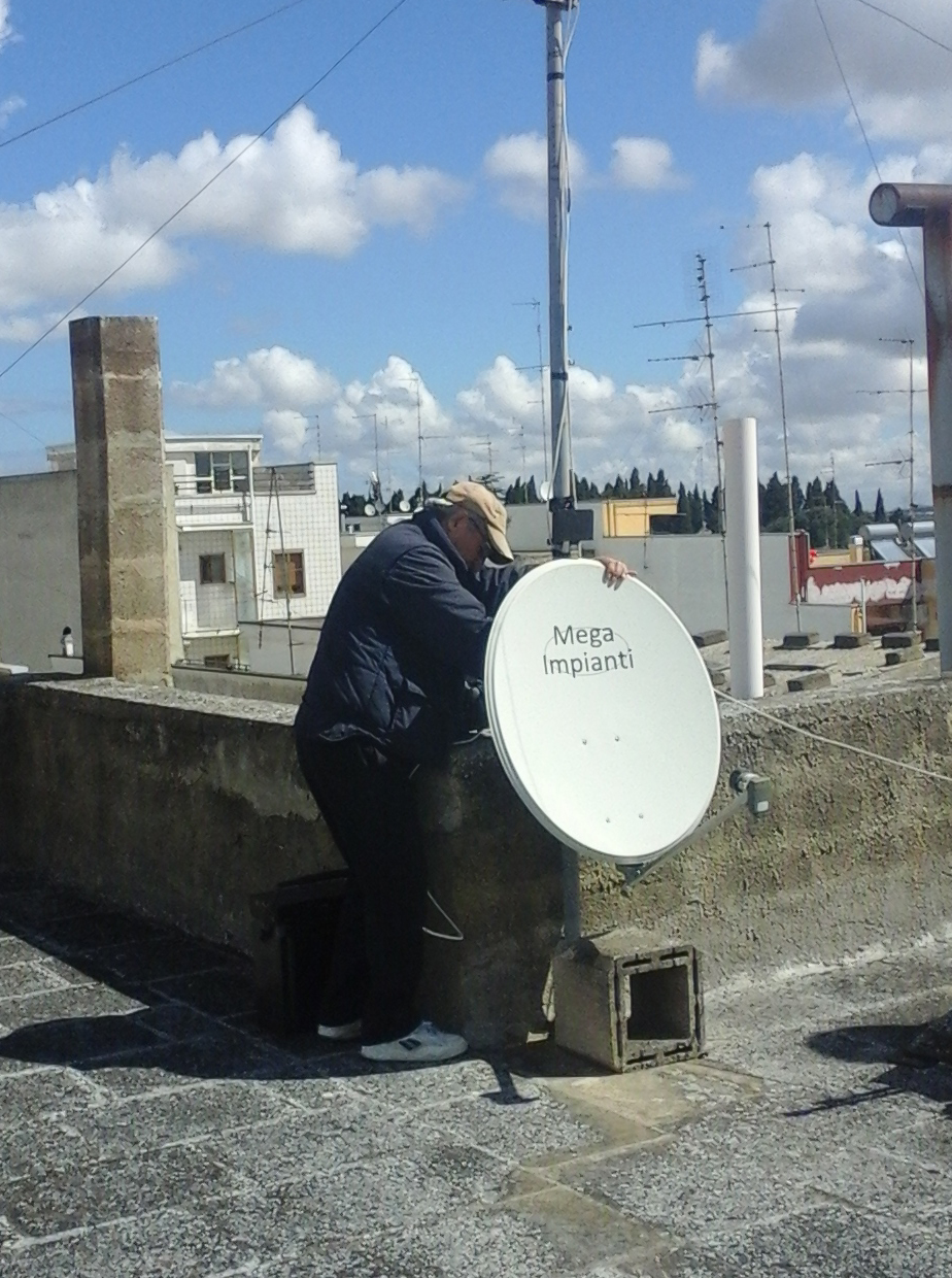 A man installs a satellite antenna.